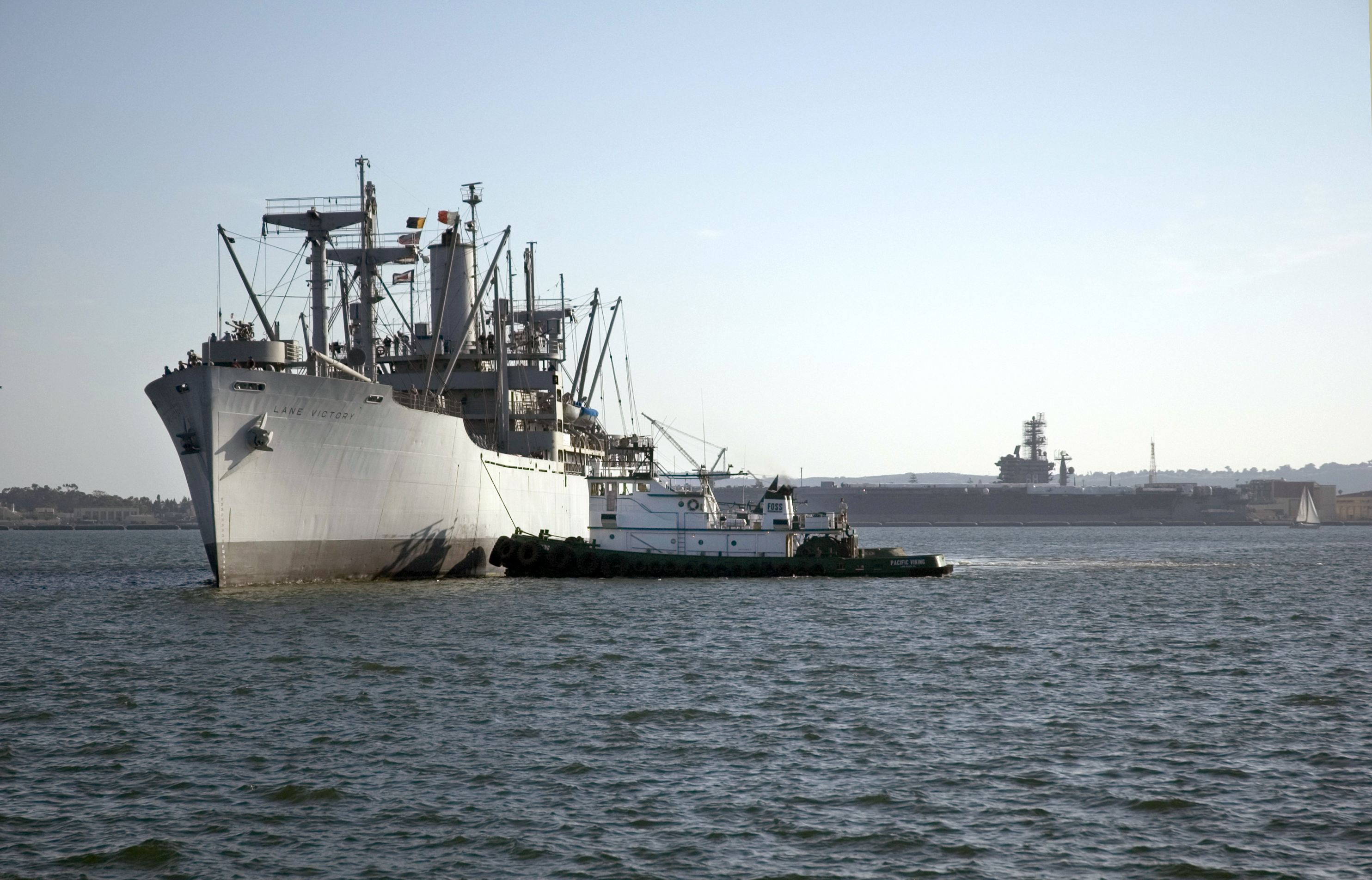 San Diego, Calif. (May 27, 2004) - The fully operational World War II (WWII) victory ship SS Lane Victory pulls into San Diego for Memorial Day weekend. The supply/troop transport vessel served with distinction and valor in the later part of WWII, Korea, (Chosen Reservoir Operation) and Vietnam wars. Victory was built in Los Angeles in 1944 and returned home after 44 years and now serves as a Maritime museum. It was named after Isaac Lane, a black man who rose from slavery to become a Bishop in the Methodist Episcopal Church and founded Lane College in Jackson, Tenn. in 1882. His granddaughter christened the ship in 1945. U.S. Navy photo by Don Fletcher (RELEASED)